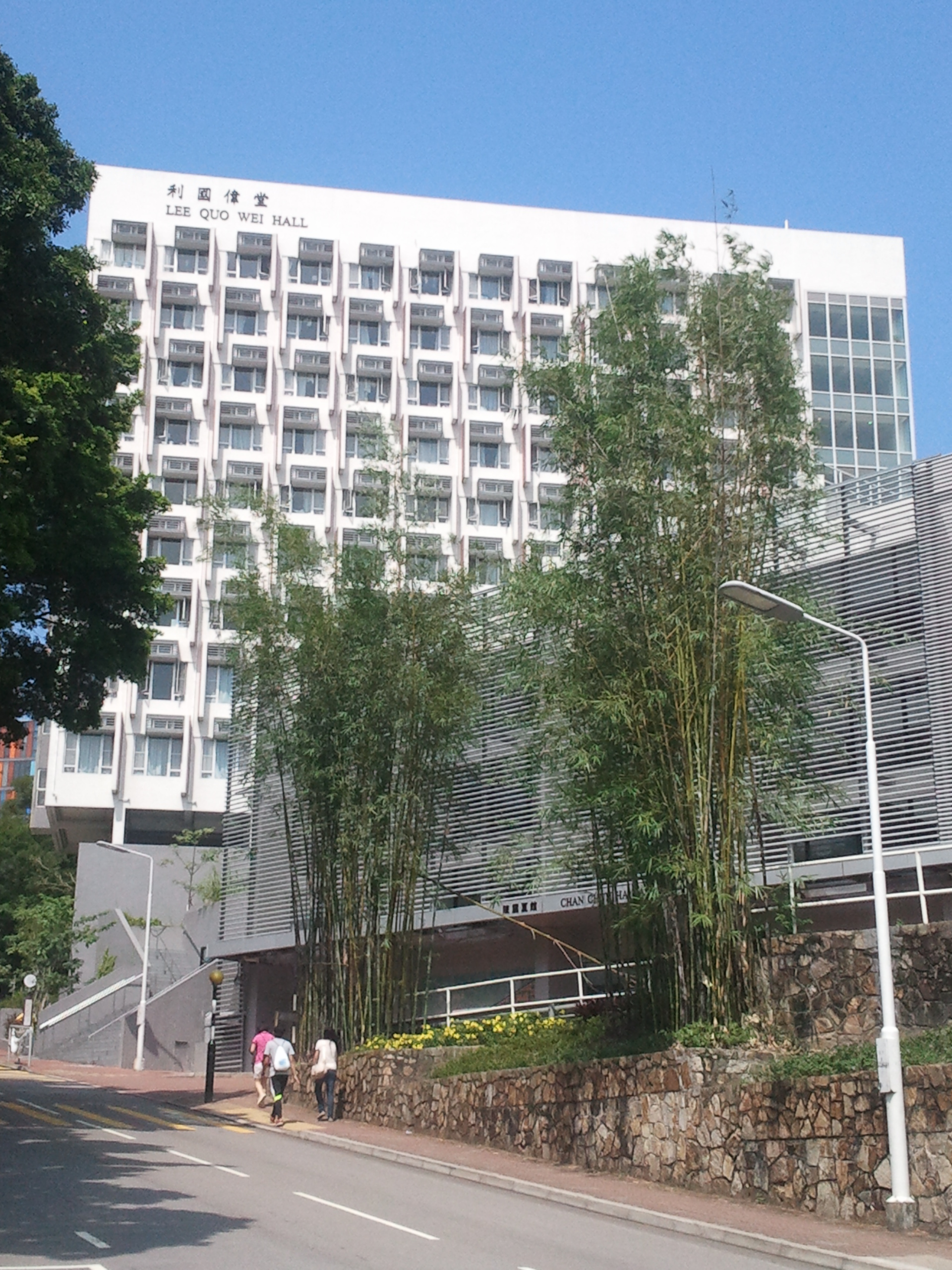 Lee Quo Wei Hall, S. H. Ho College, CUHK